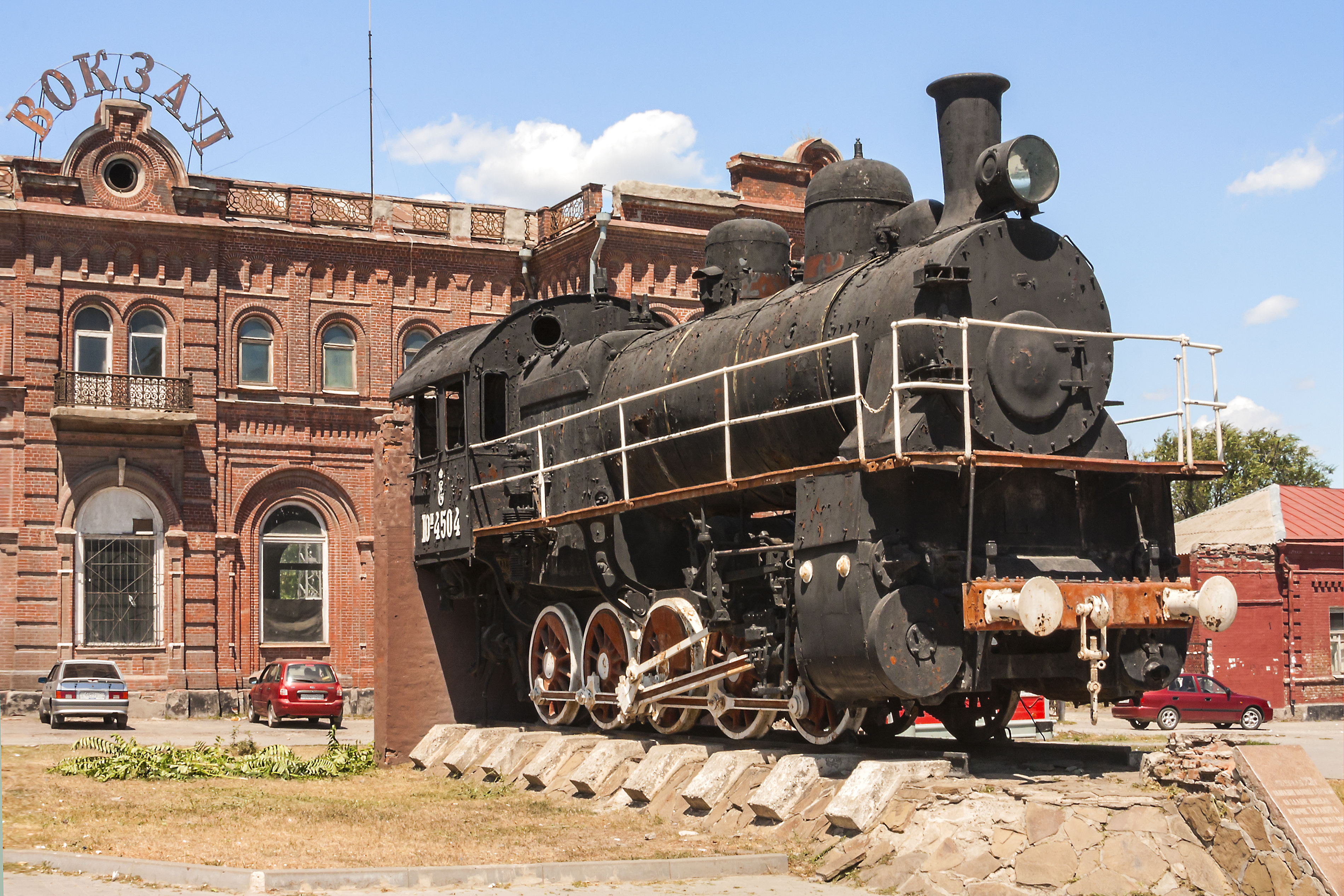 Monument symbol "Steam": Uprising Square, Taganrog, Rostov region.